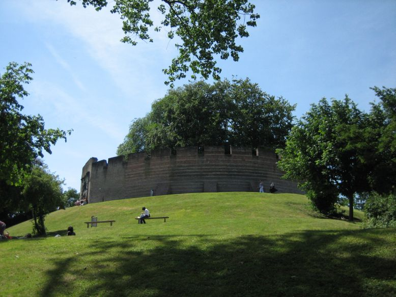 Edificación sobre una colina artificial, llamada De Burcht ("el castillo"), situada en la ciudad de Leiden (Países Bajos). Foto tomada por Enrique Boira Freire (usuario Enboifre), desde el Van der Sterrepad, el 14 de julio del 2006. Building on an artificial hill, called De Burcht ("the castle"), situated in the city of Leiden (The Netherlands). Picture taken by Enrique Boira Freire (user Enboifre), from the Van der Sterrepad, on the 14th of July, 2006.